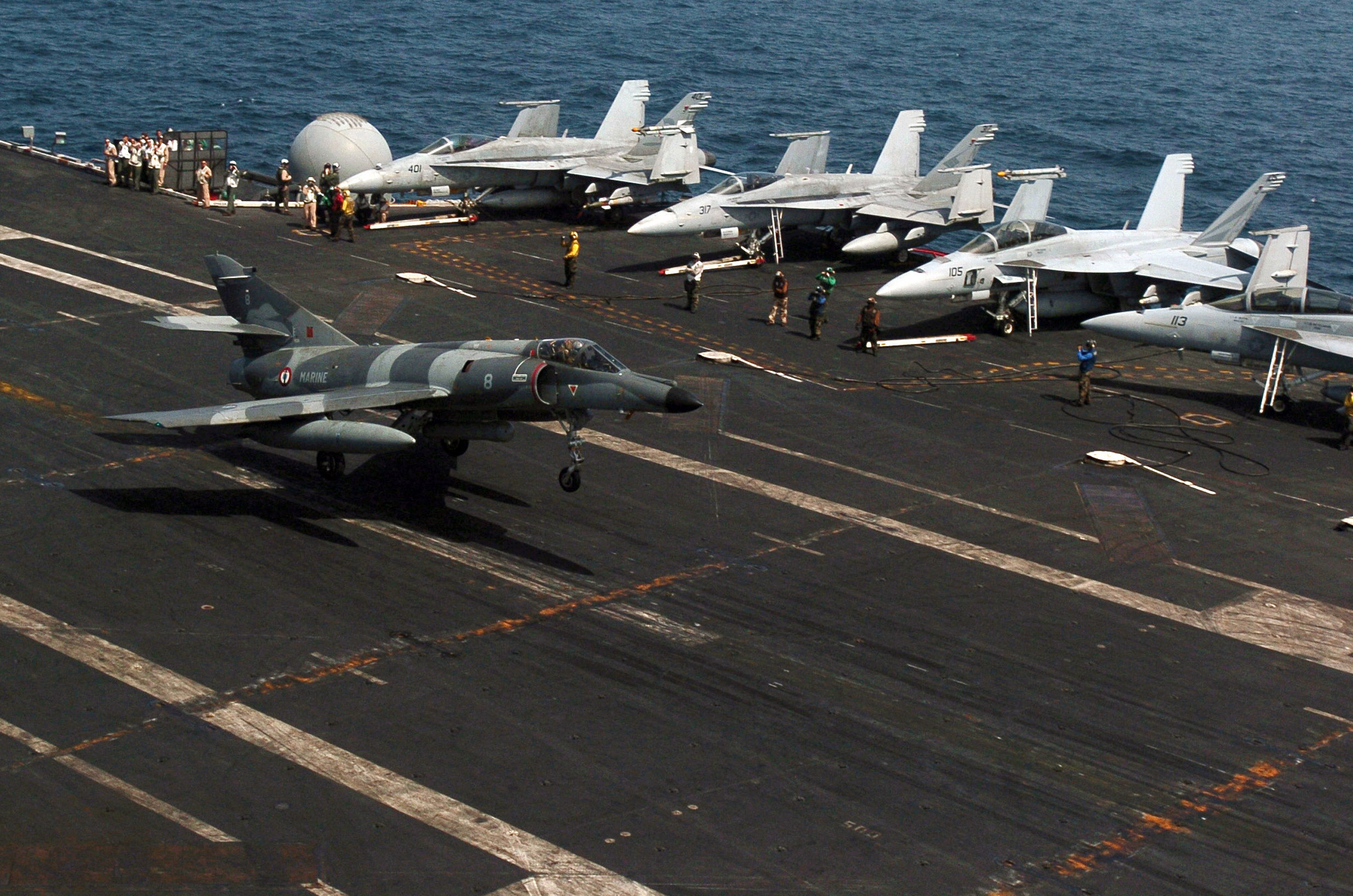 A French Super-Etendard from the nuclear-powered aircraft carrier French Navy Ship Charles de Gaulle (R 91) performs a touch-and-go landing on the flight deck of the Nimitz-class aircraft carrier USS John C. Stennis (CVN 74). Stennis, as part of the John C. Stennis Carrier Strike Group, and Charles de Gaulle, the flagship of Commander, Task Force 473, are operating in the North Arabian Sea. Stennis and Charles de Gaulle are conducting bilateral exercises and supporting multi-national ground forces in Afghanistan.